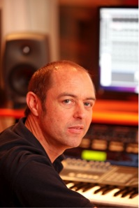 Pete day in studio